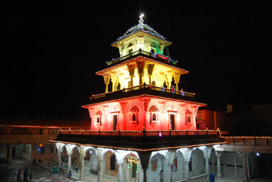 Santram Mandir, Nadiad during Dev Diwali Celebration in 2008